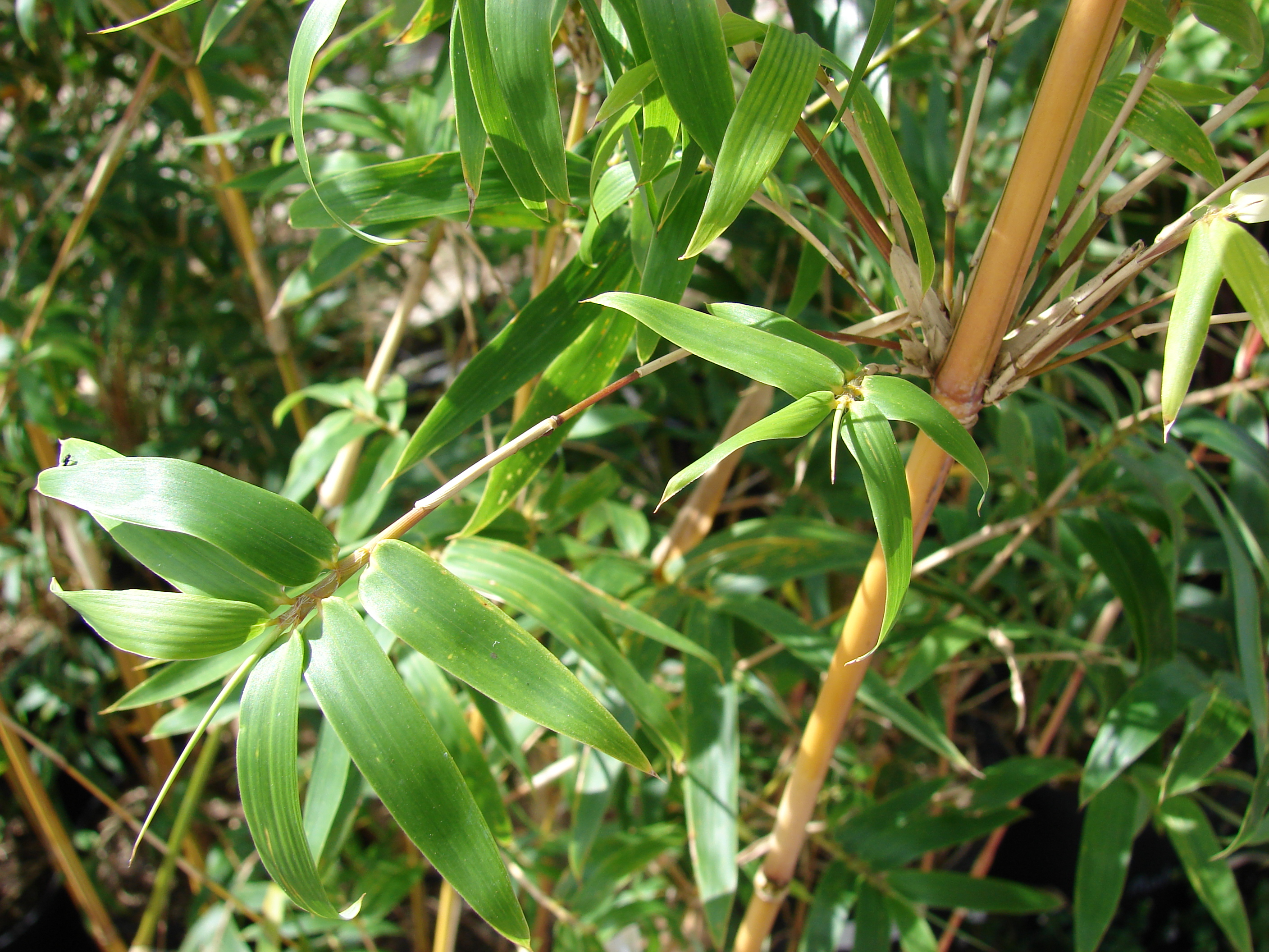 Bambusa multiplex (leaves). Location: Maui, Home Depot Nursery Kahului